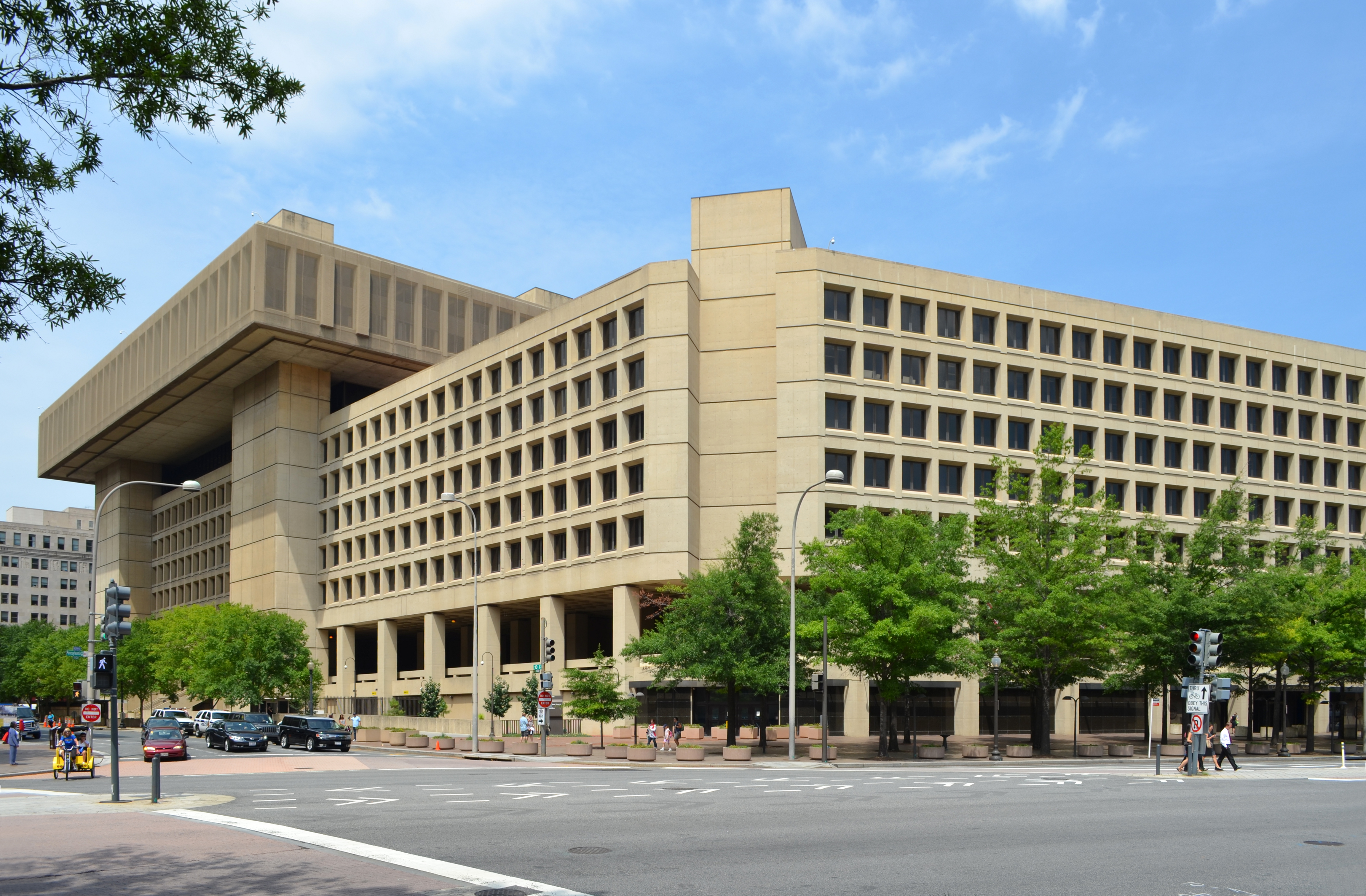 J. Edgar Hoover Building (FBI)